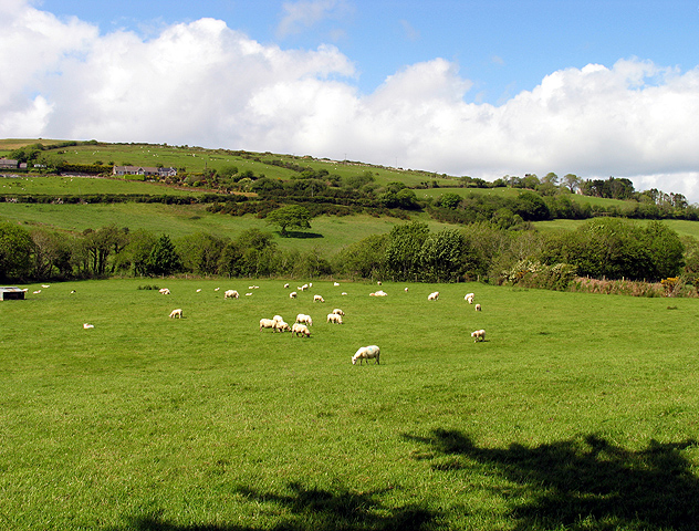 Sheep Farming near Durras. This grid square is totally over to pasture land, a road and a river.